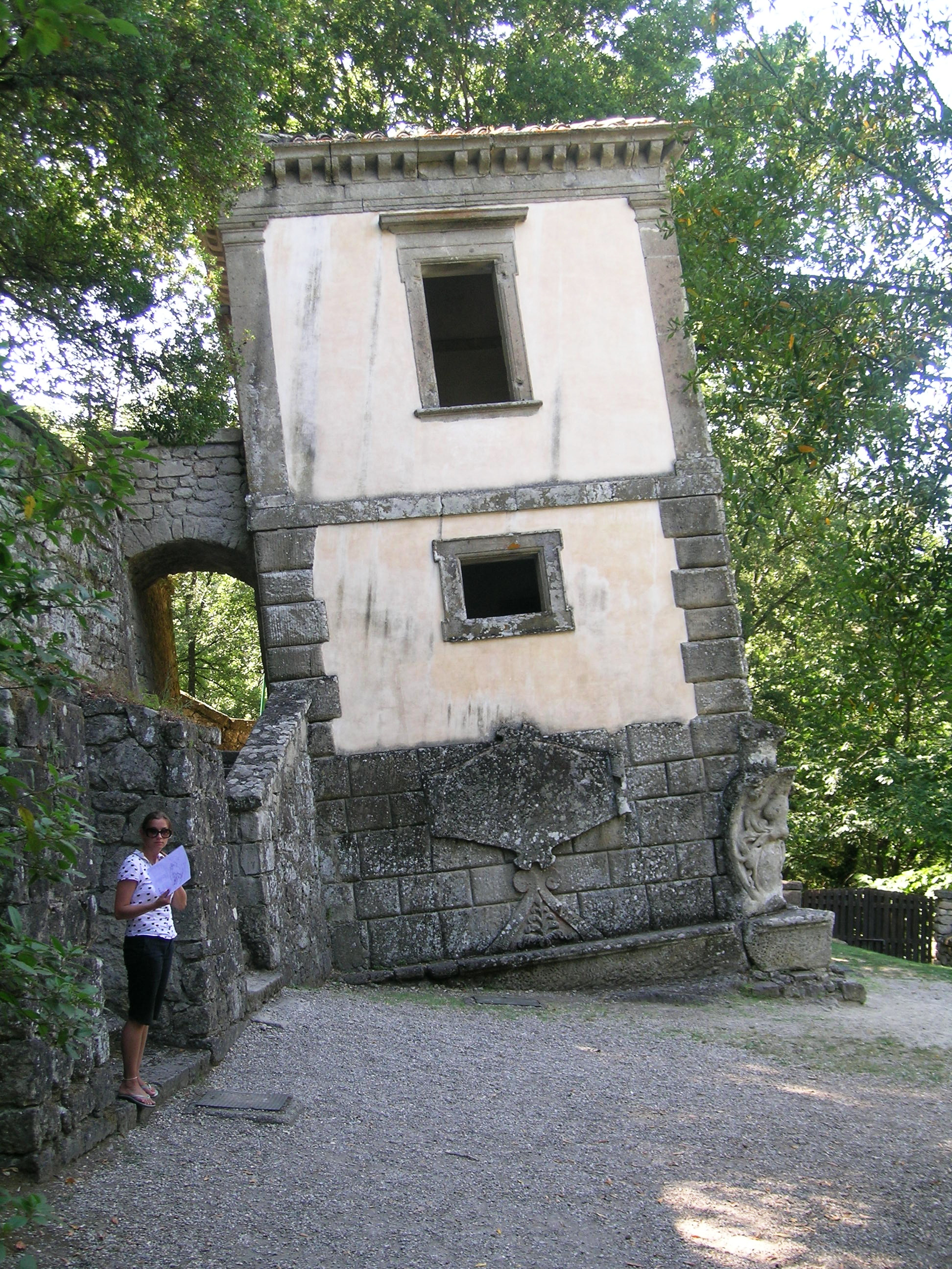 leaning house in the park of monsters, close to Bomarzo (Italy)